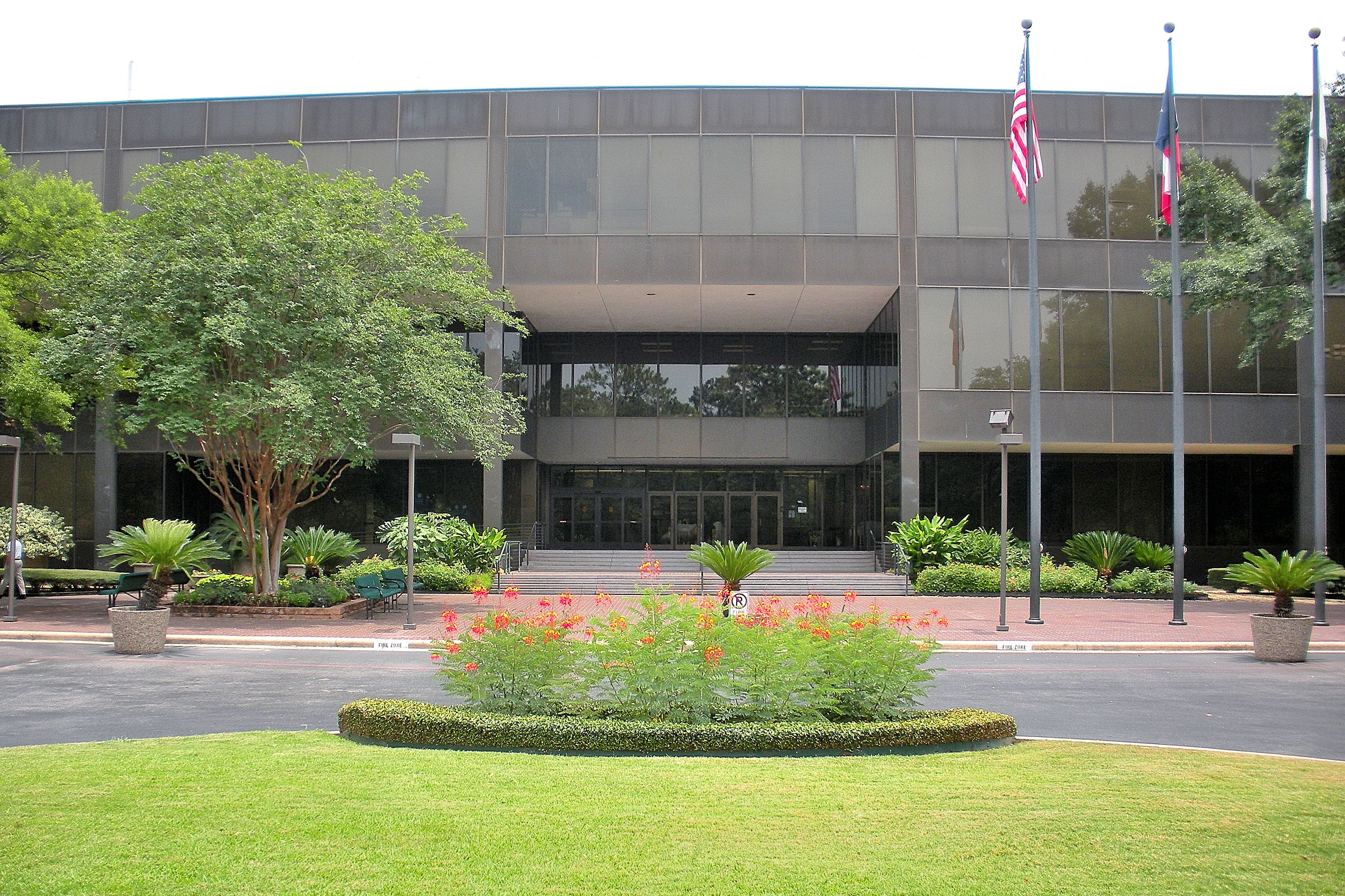 Bayou Building on the campus of the University of Houston–Clear Lake